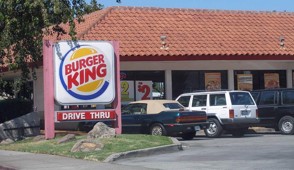 A Burger King restaurant in Redwood City, California. Photographed by user Coolcaesar on September 29, en:2005.